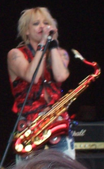 Michael Monroe of Hanoi Rocks, singing on stage at the Scarborough Rock in the Castle festival.